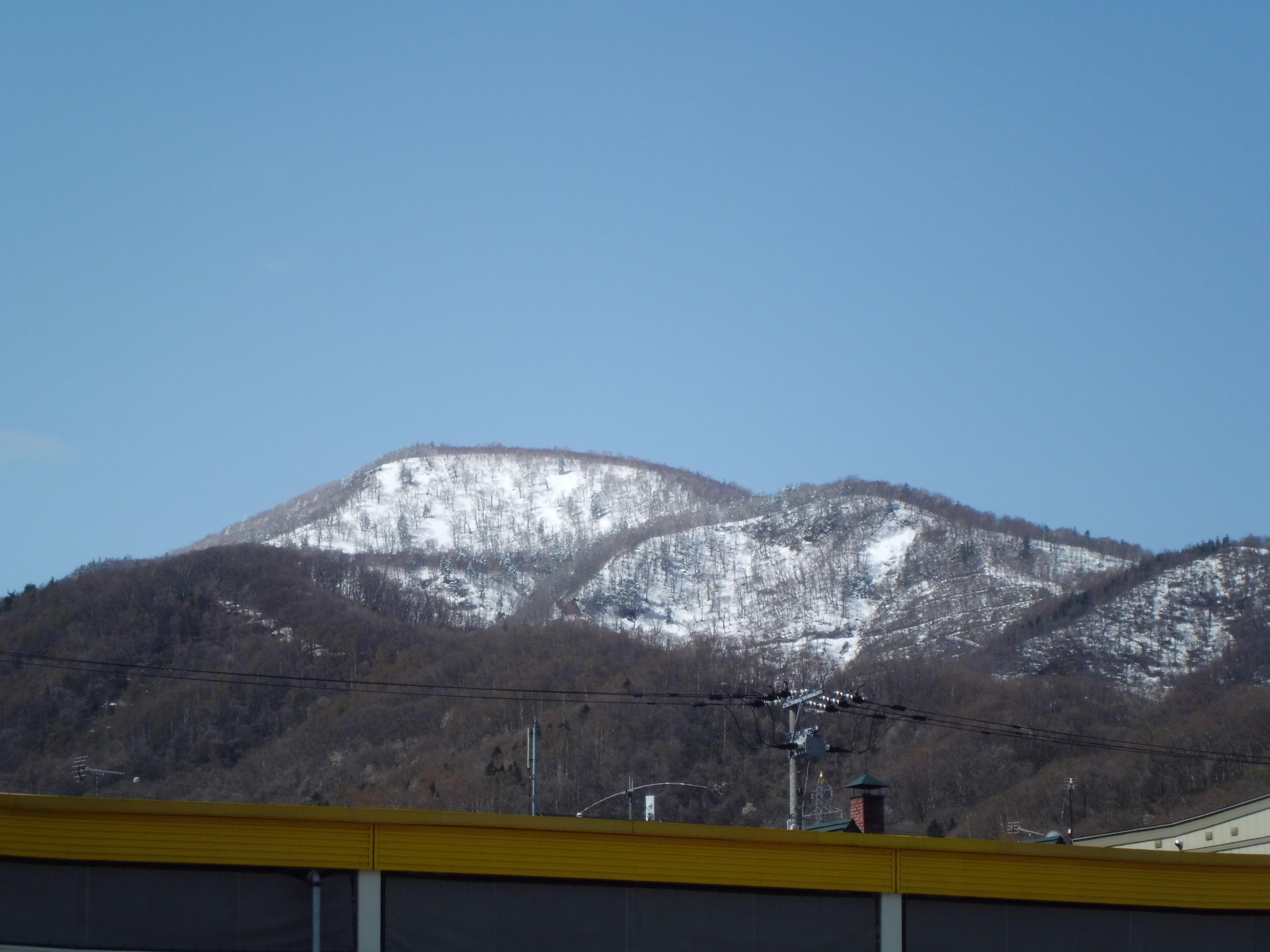 Mount Haruka (left) and Mount Wausu (right)